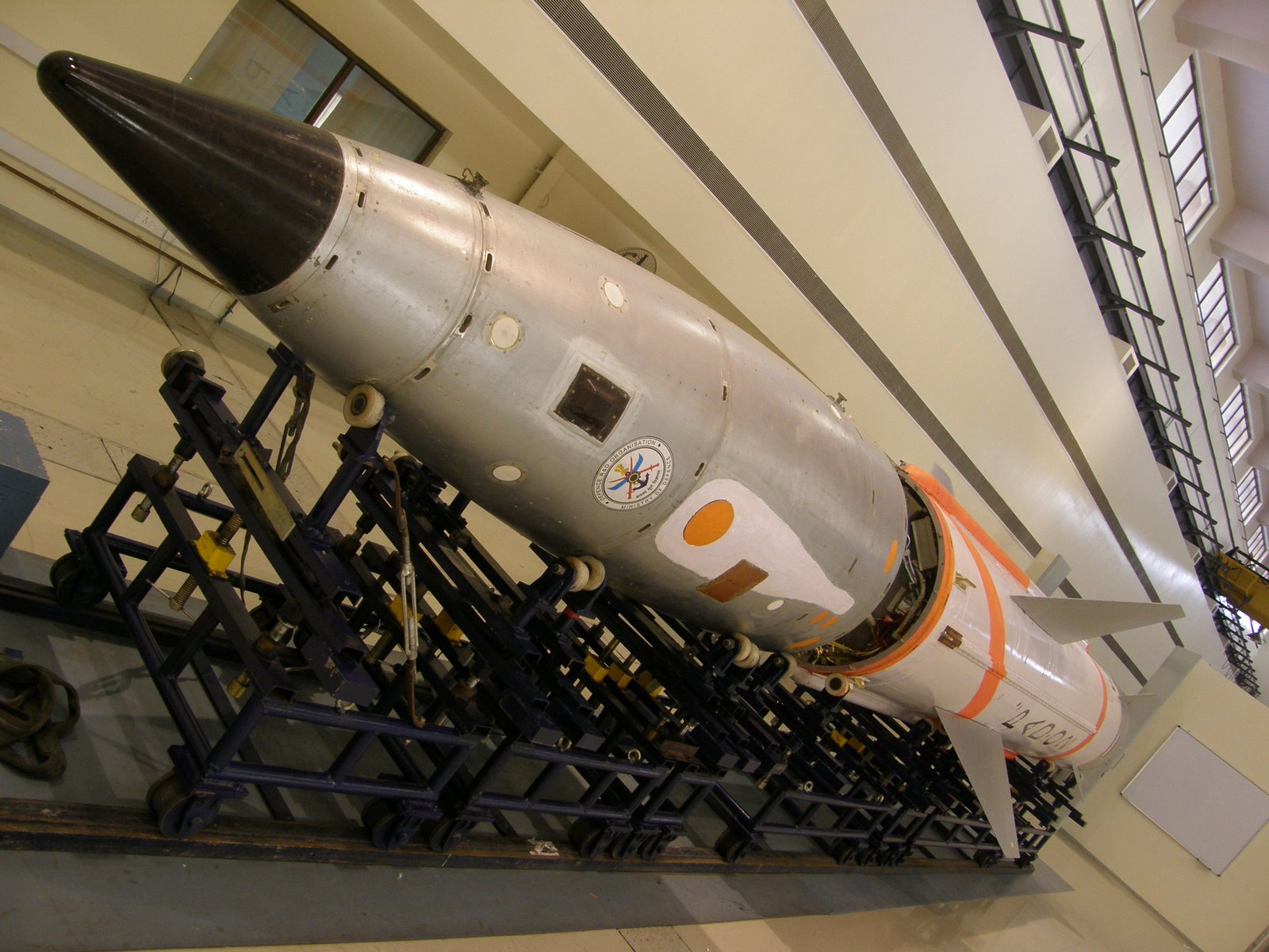 An image of the PAD Exo-atmospheric interceptor missile, being integrated at the Programme Air Defence ABM missile production facilities in Hyderabad. The PAD missile is part of India's Ballistic Missile Defense Program. It was first tested on 27th November 2006.